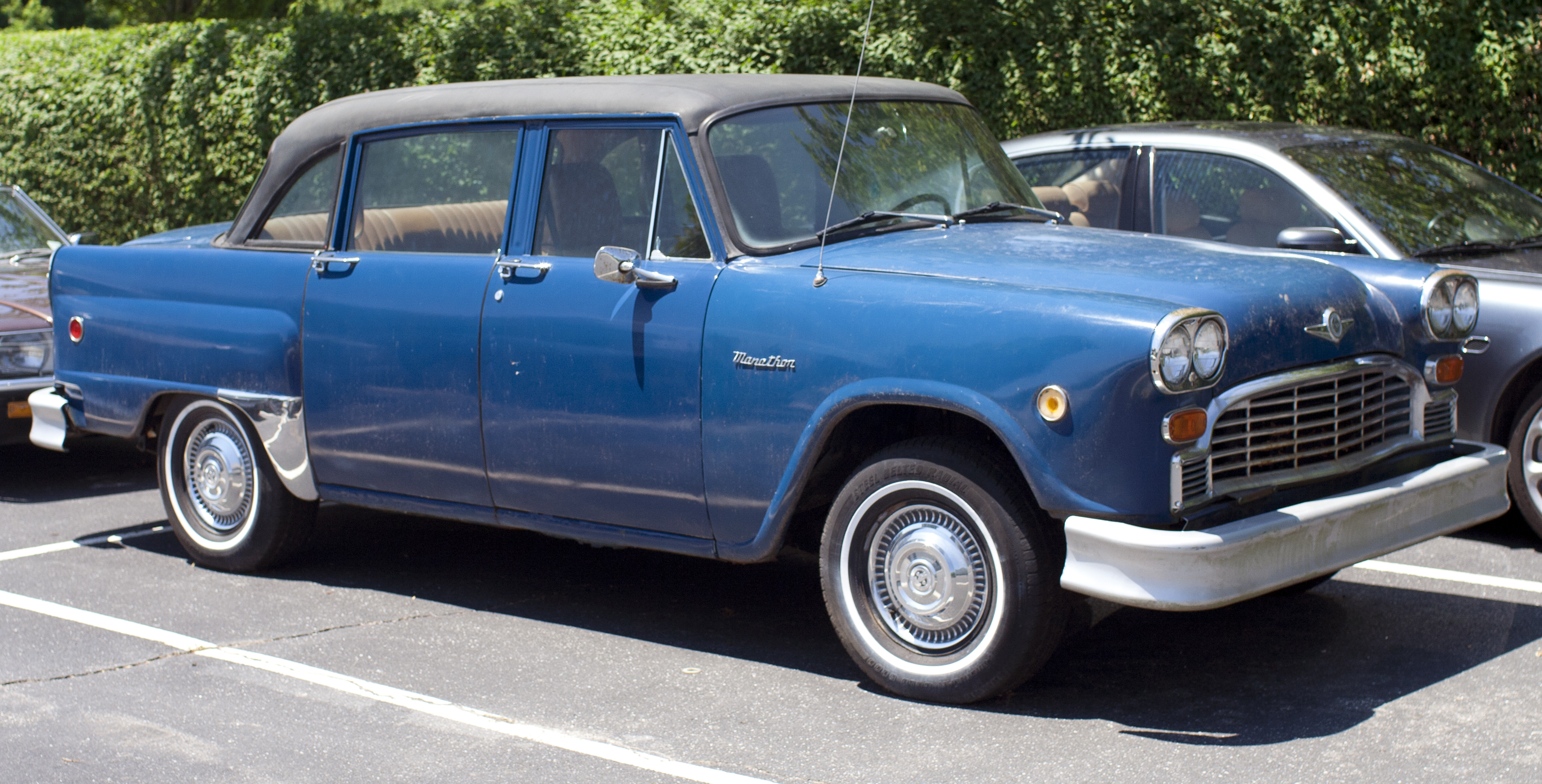 1978-1982 Checker Marathon A12, rare with a vinyl roof